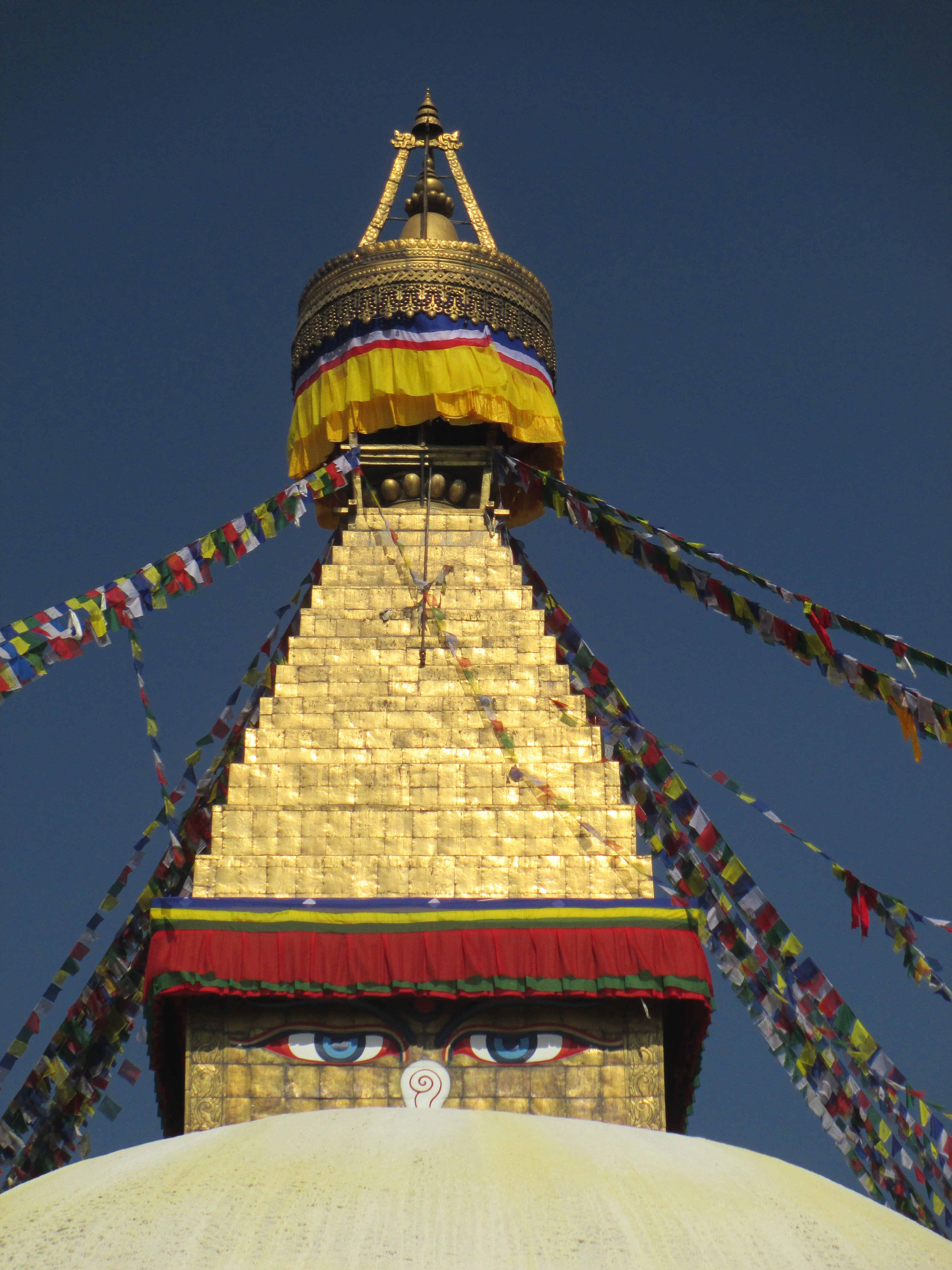 Top of the Grand Swayambhunath Stupa.It is an ancient religious complex atop a hill in the Kathmandu,Nepal